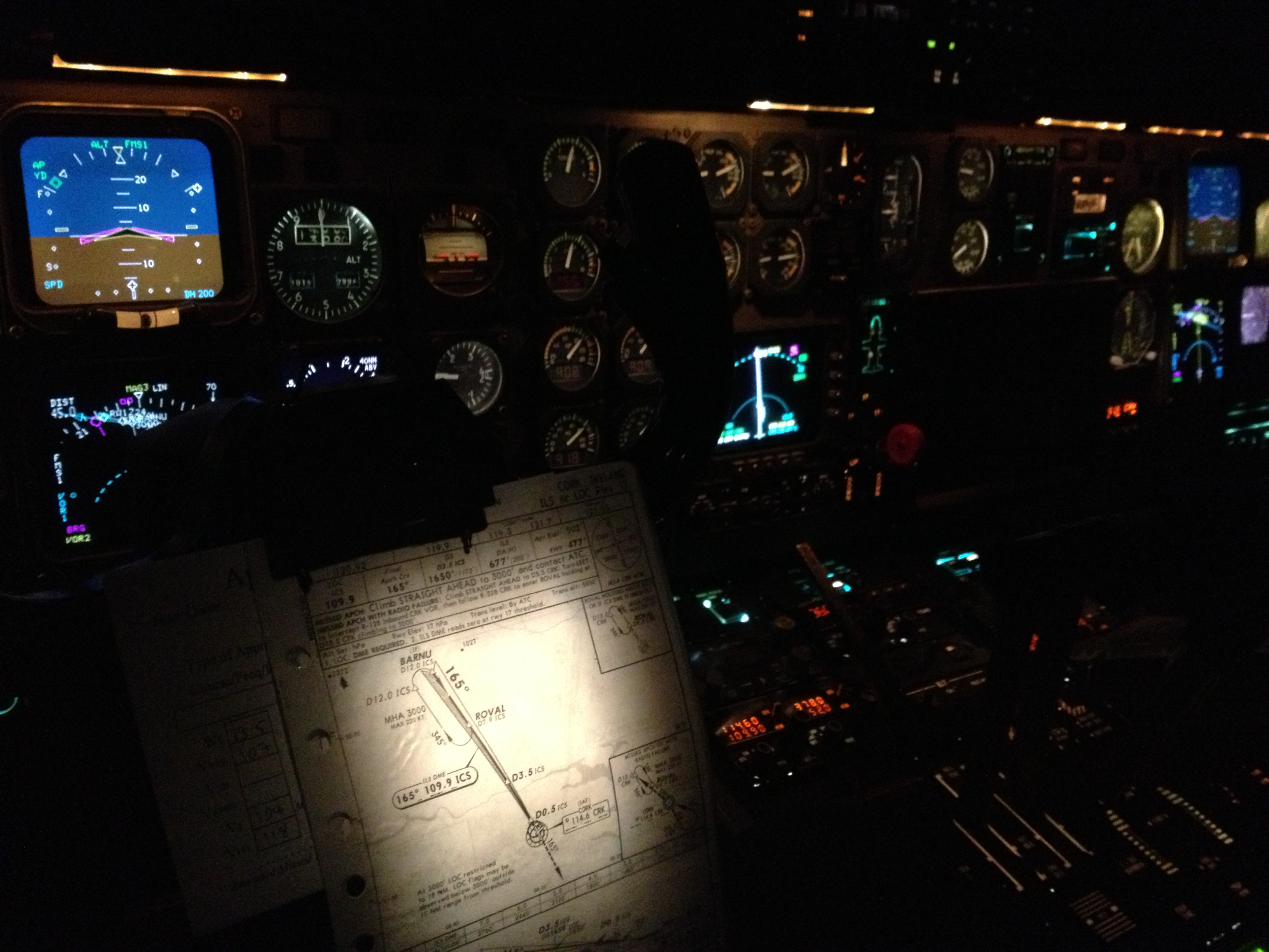 Cockpit view on a night air ambulance in the CASA